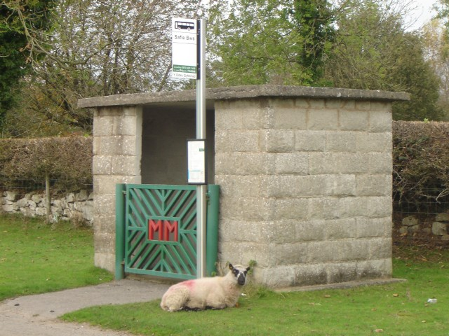 Sheep at bus shelter Bus shelter in Rhes-y-Cae on Halkyn Mountain. The sheep is waiting for the 14A to Denbigh. Silly sheep - it doesn't run on a Sunday.